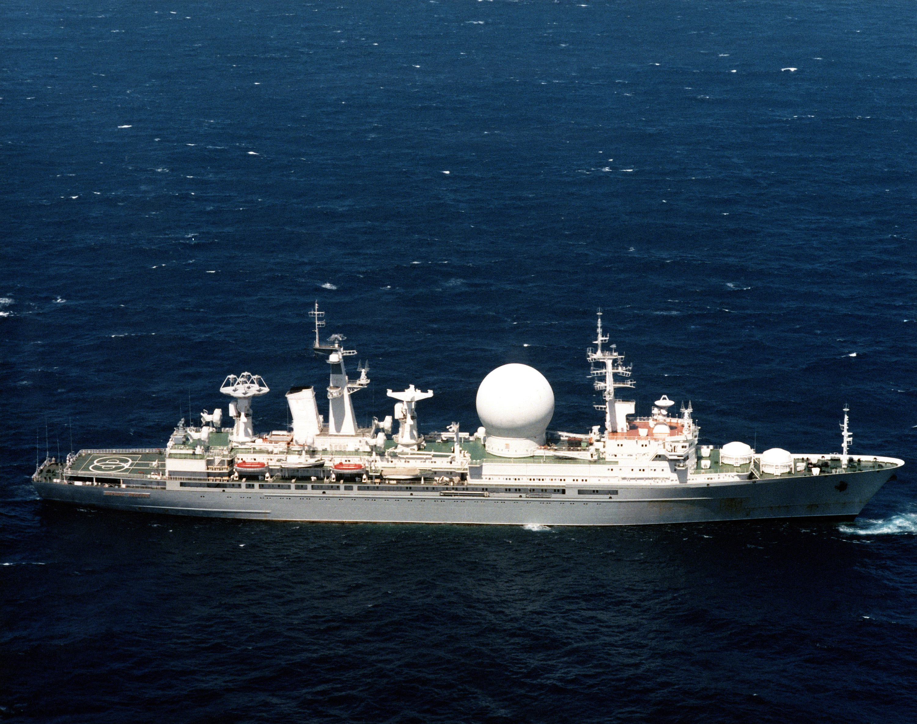 A starboard beam view of the Soviet missile range instrumentation ship MARSHAL NEDELIN at sea to monitor a long-range ballistic missile test.